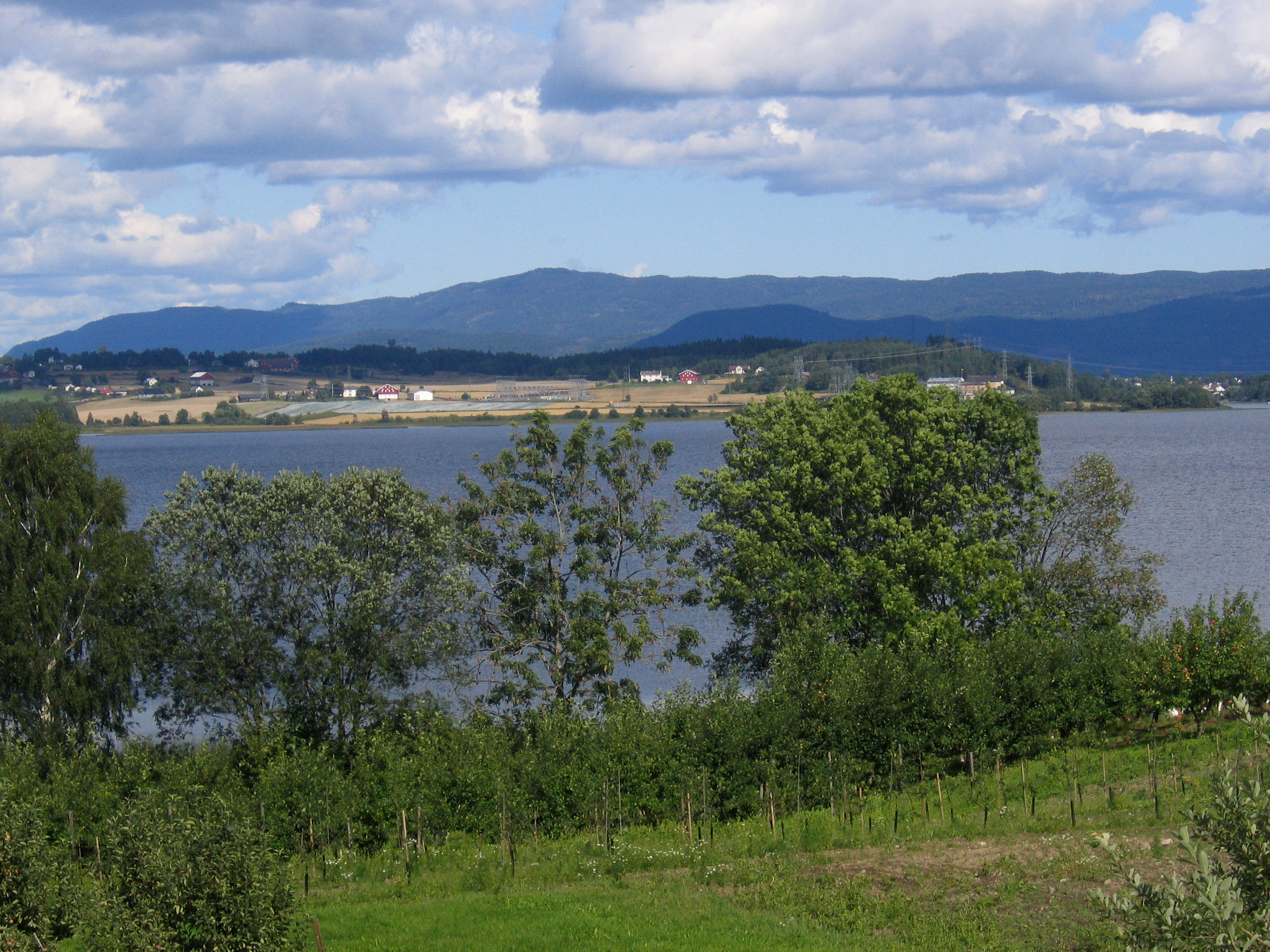 Norwegian landscape in Øvre Eiker i Buskerud. Lake Fiskumvannet.